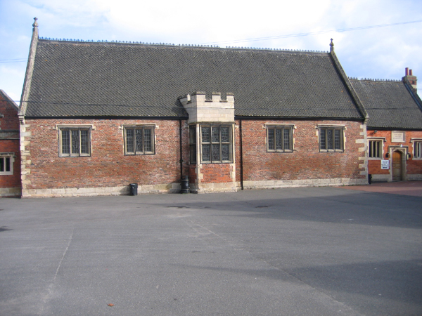 Boston Grammar School, Lincs. The original school hall off South End, erected in 1567 using masonry from the friary of the Franciscans (Greyfriars).